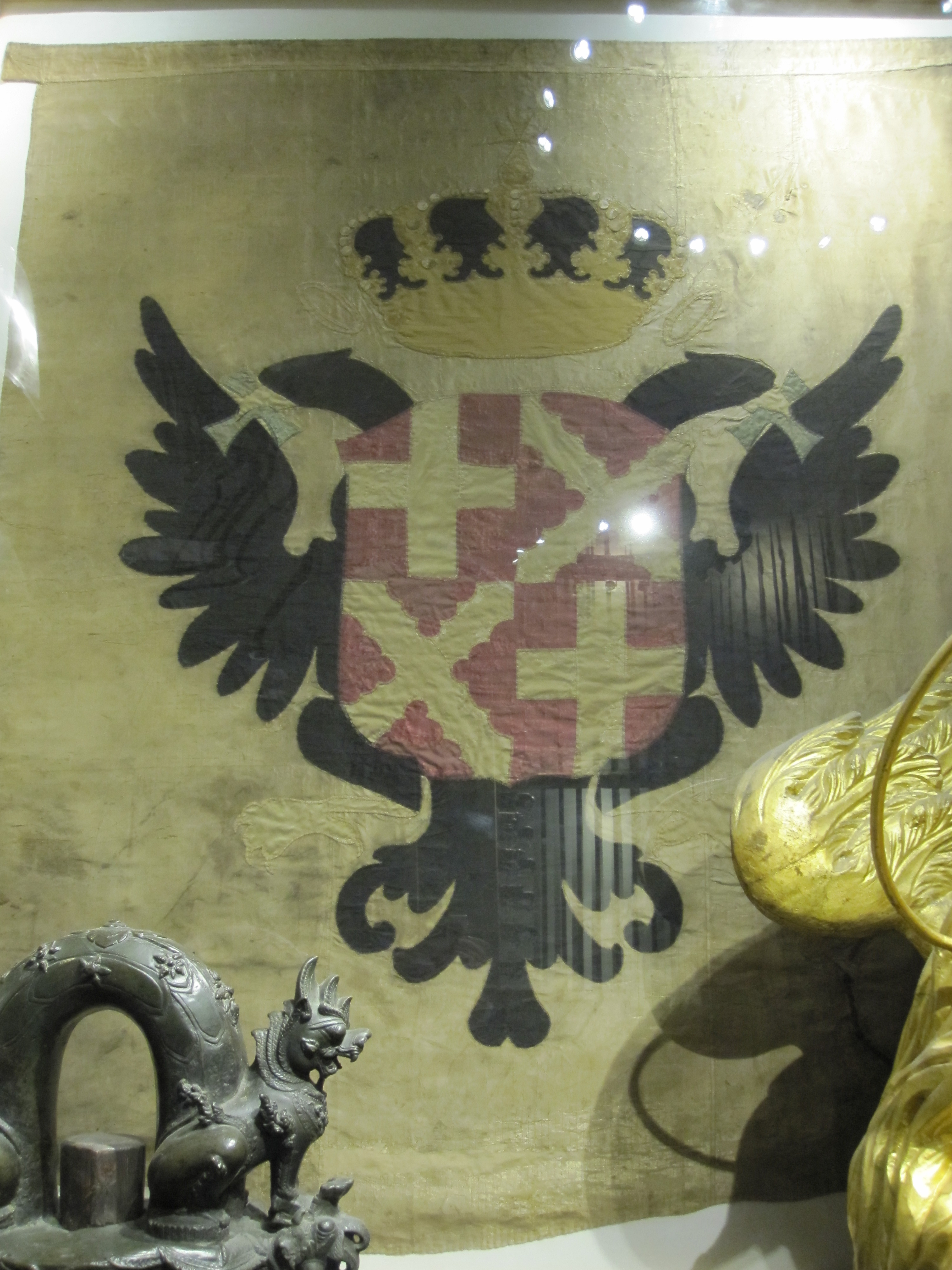 This banner bears the arms of Baron Ferdinand von Hompesch, 71st Grand Master of the Knights of Malta, quartered with the Order's white cross. In 1798 Napoleon's French forces captured Malta on their way to invade Egypt. HMS Seahorse, a British frigate, later seized the banner from the French. Malta, about 1797.